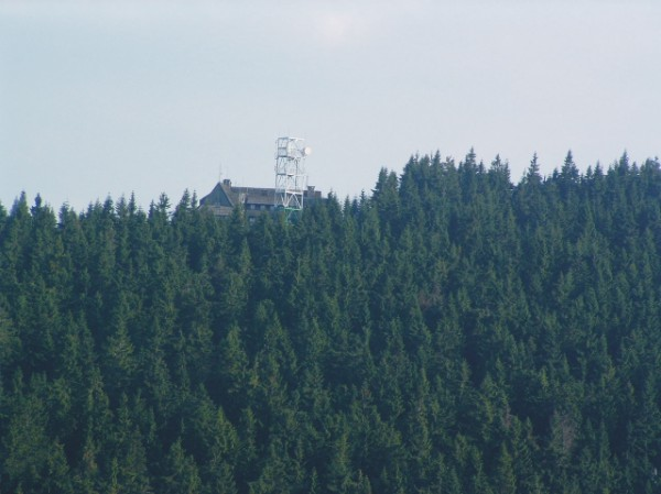 Gorce Mountain